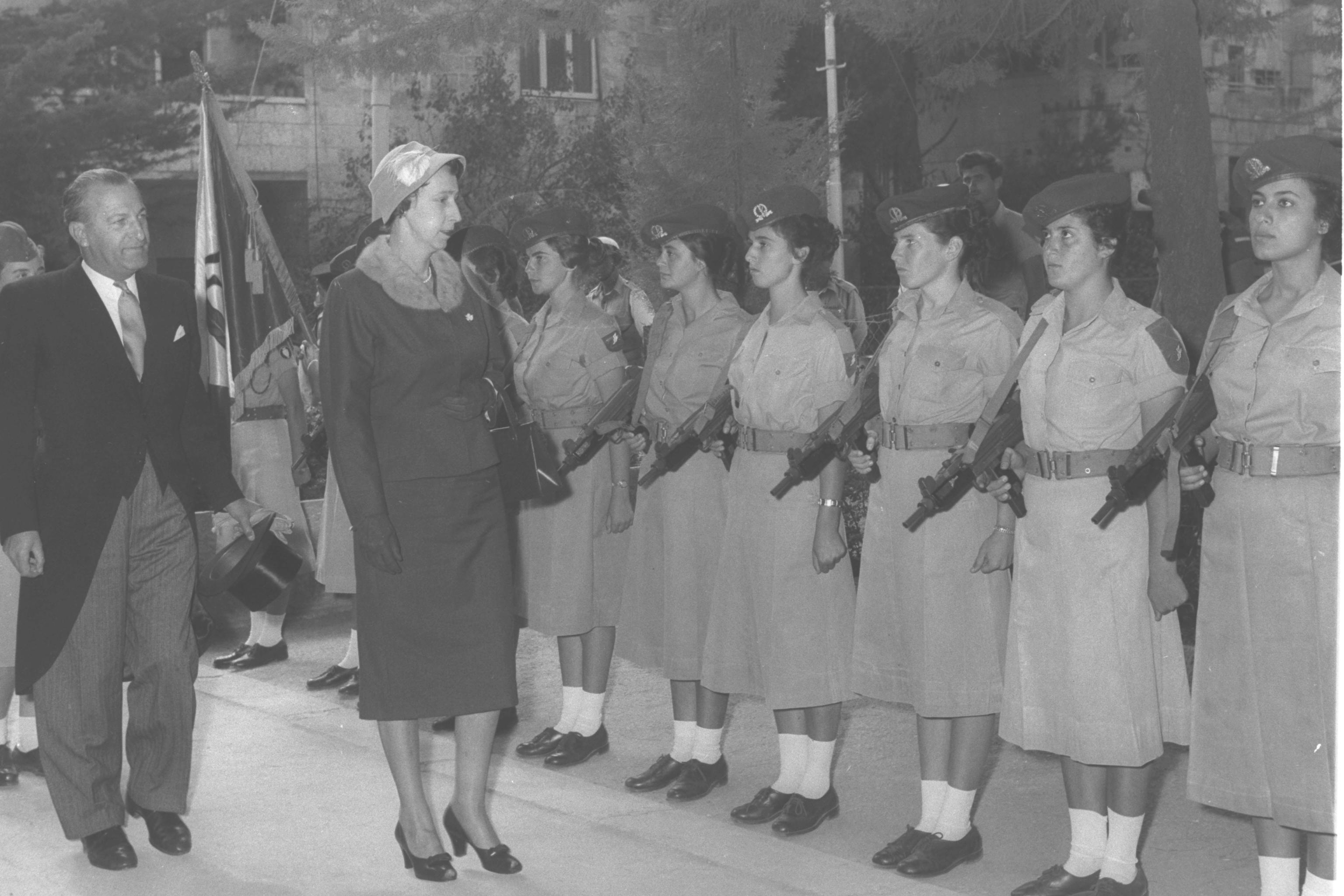 Canadian Ambassador Margaret Meagher inspecting an honor guard on her way to present her credentials to the president of Israel Yitzhak Ben-Zvi.